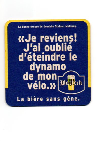 Beer coasters of the brewery Warteck, Basel, Switzerland